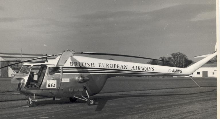 Template:BEA Bristol 171 Sycamore G-AMWG "Sir Gawain" at London Gatwick on the passenger service from Birmingham via Heathrow